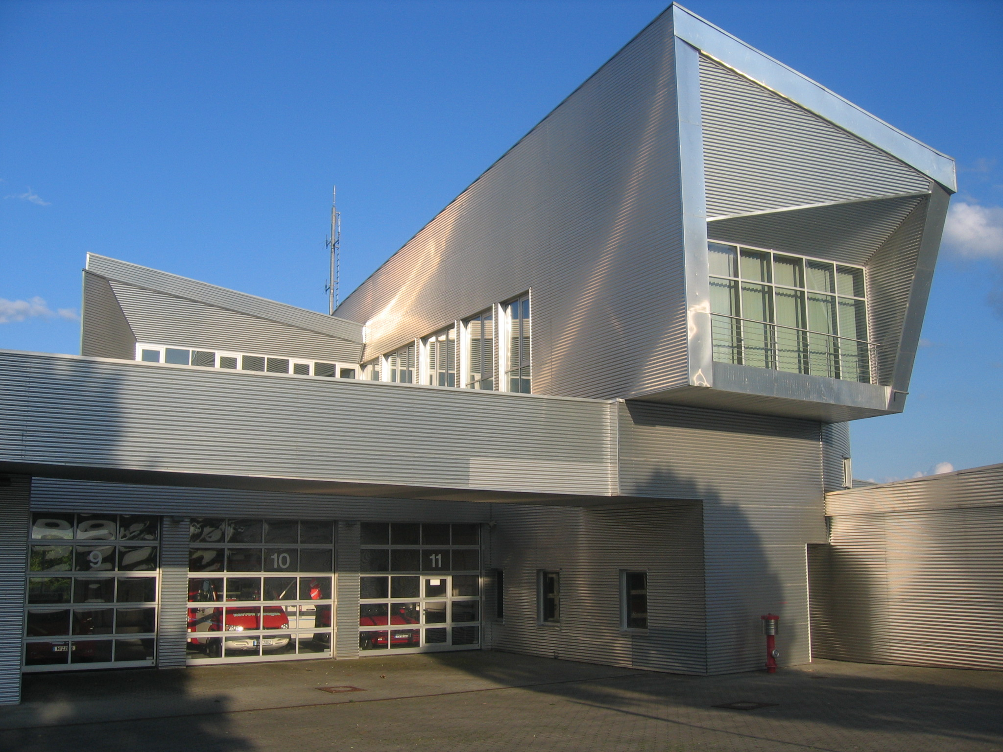 Main fire station in Bünde, District of Herford, North Rhine-Westphalia, Germany.